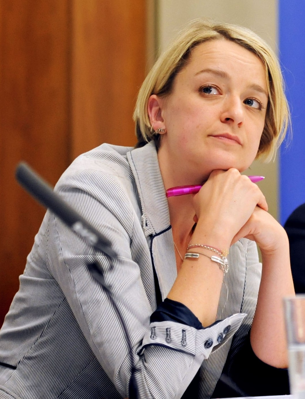 Laura Kuenssberg at the "Changing the Conversation" panel hosted by Cicero.